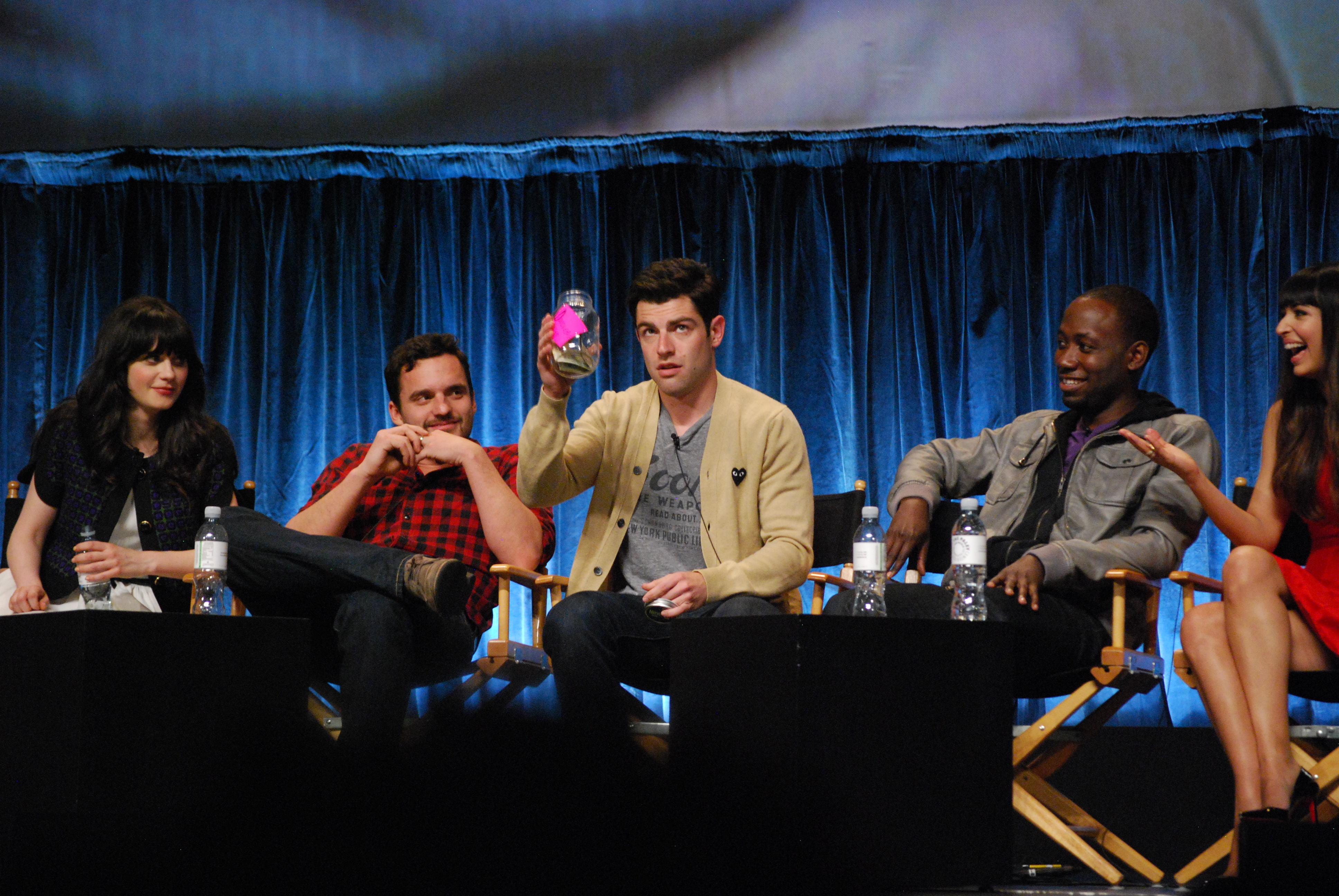 Max puts money in the douchebag jar.